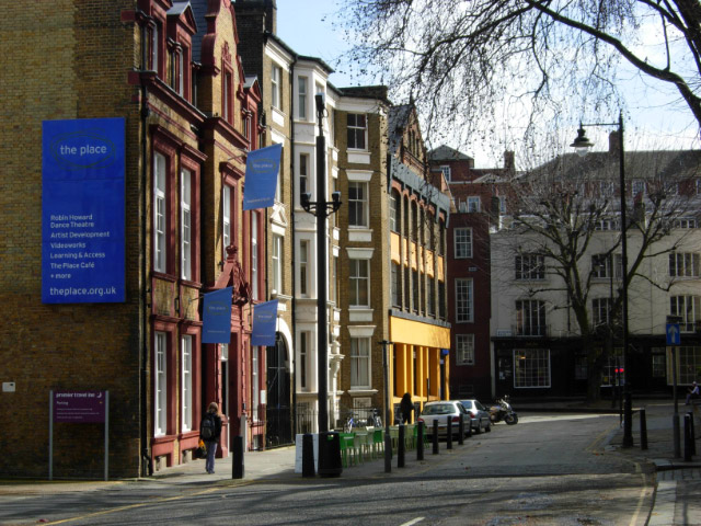 Duke's Road, Euston A short street running south of Euston Road to the rear of St Pancras church. The building on the left is a former army drill hall, now a contemporary dance studio.